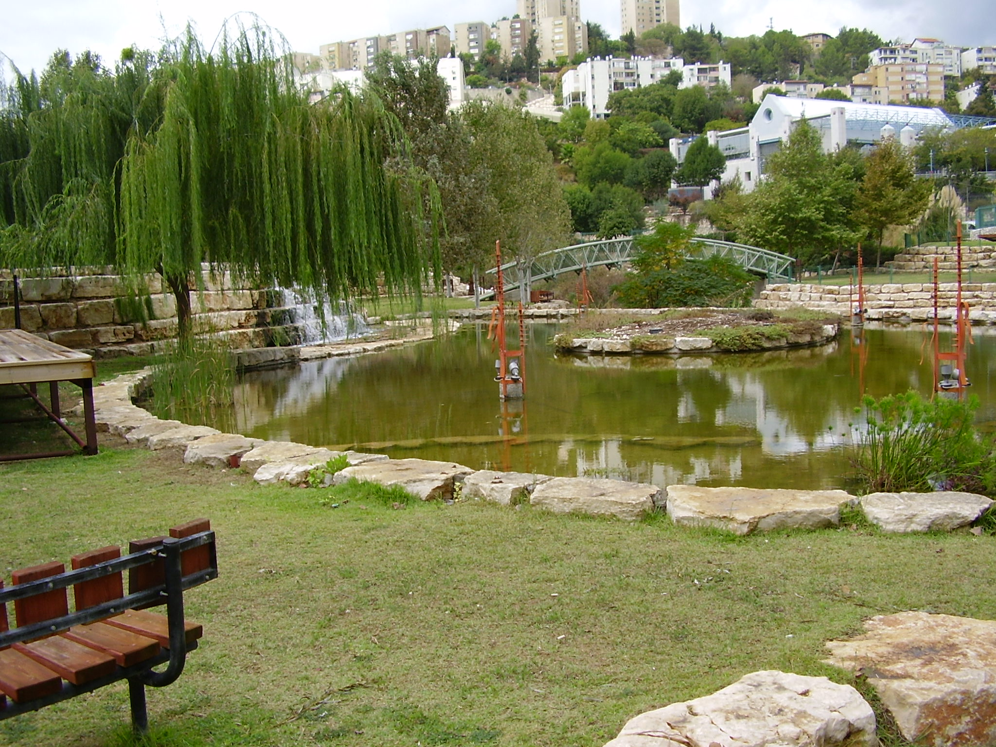 willow tree in a park in yokneam